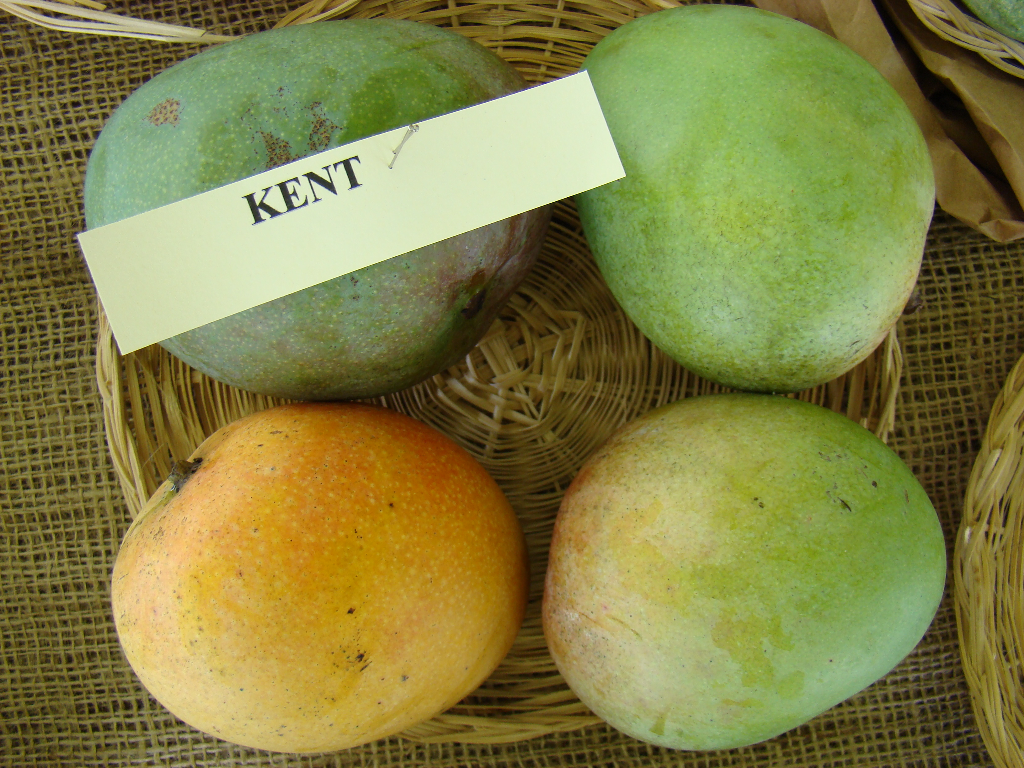 This is a photo of the display of Kent mango at the Redland Summer Fruit Festival, Fruit & Spice Park, Homestead, Florida.